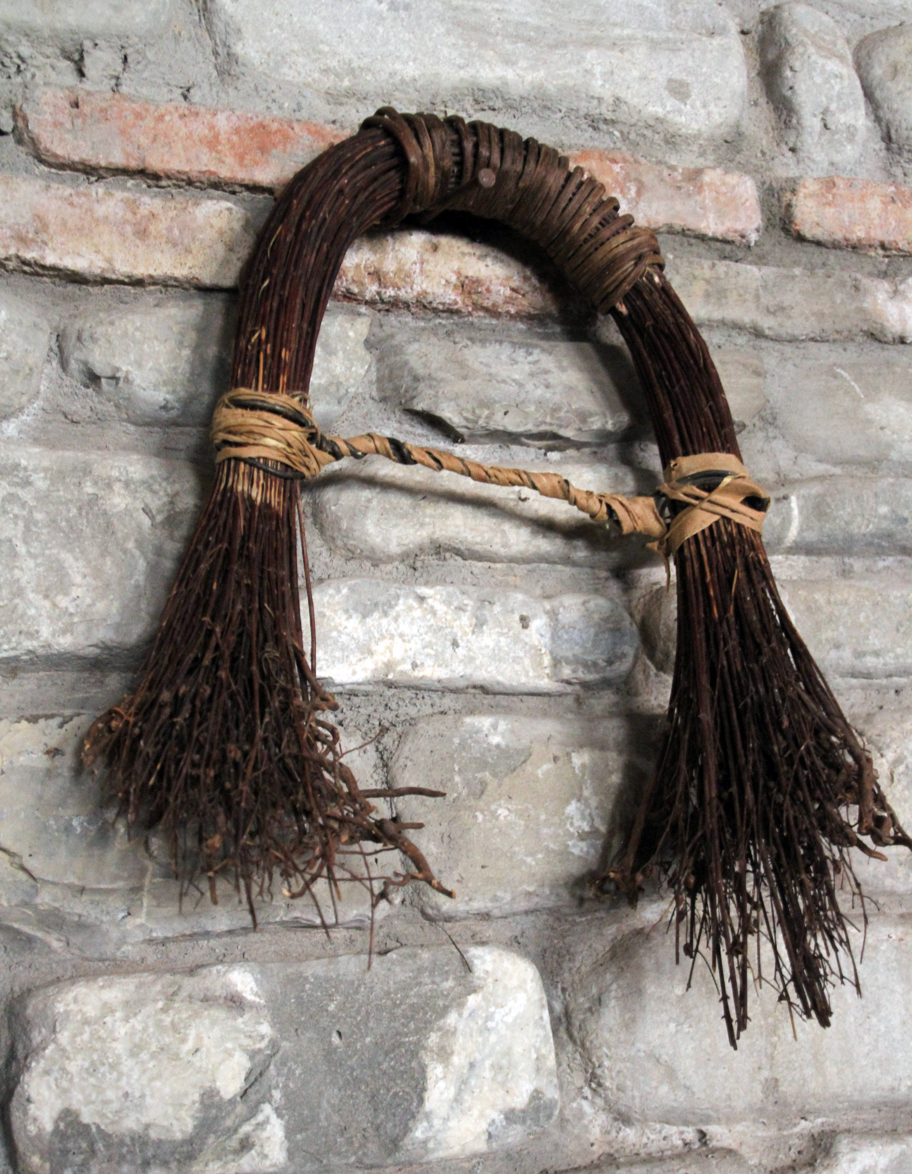 Mosmieri vinery in Georgia